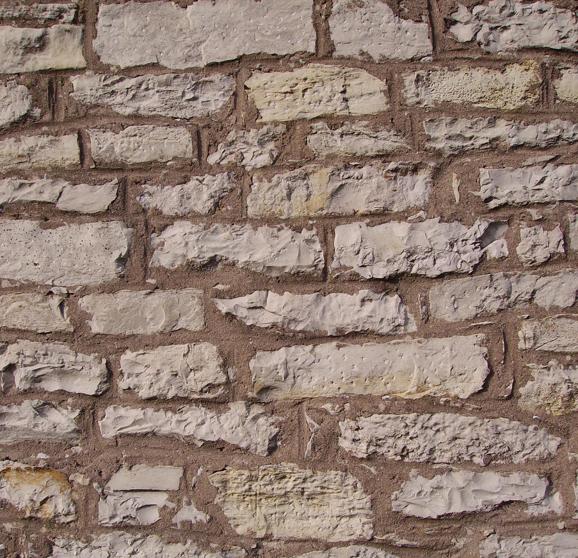 views of Königsfeld in Oberfranken near Bamberg (Upper Franconia) in Germany